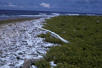 Coast of McKean Island, Phoenix Islands, Kiribati, with flat coral rubble beach & low-tide reeflats and with Fairy tern (Gygis alba) flying directly toward camera. Original field notes: Vegetation is puncture vine (Tribulus cistoides)